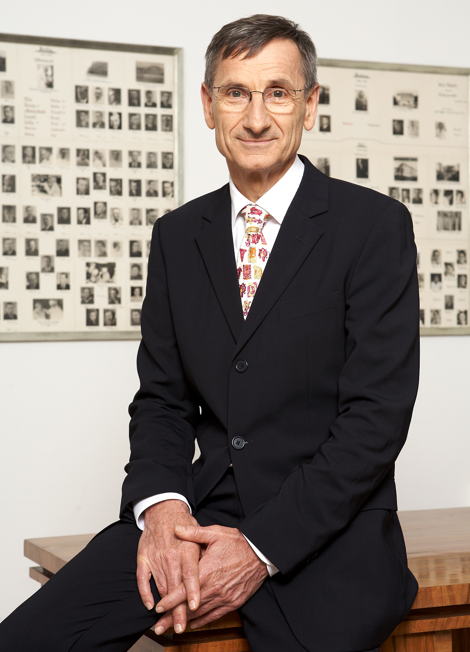 Prof. Dr. Achim Schneider MPH, german gynecologist